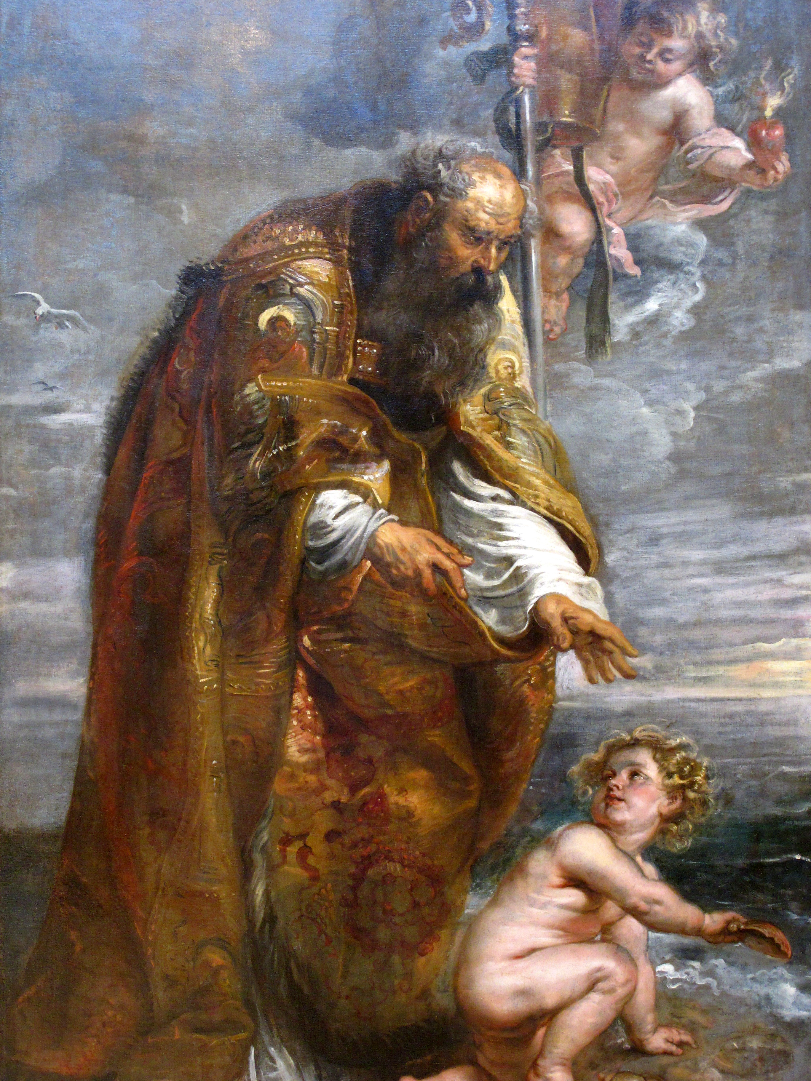 Peter Paul Rubens - St. Augustine, 1636-1638, originally place in church of St. Augustine in Prague then moved to the Sternberg palace of the National gallery in Prague. In the year 2013 returned to the church of St. Augustine